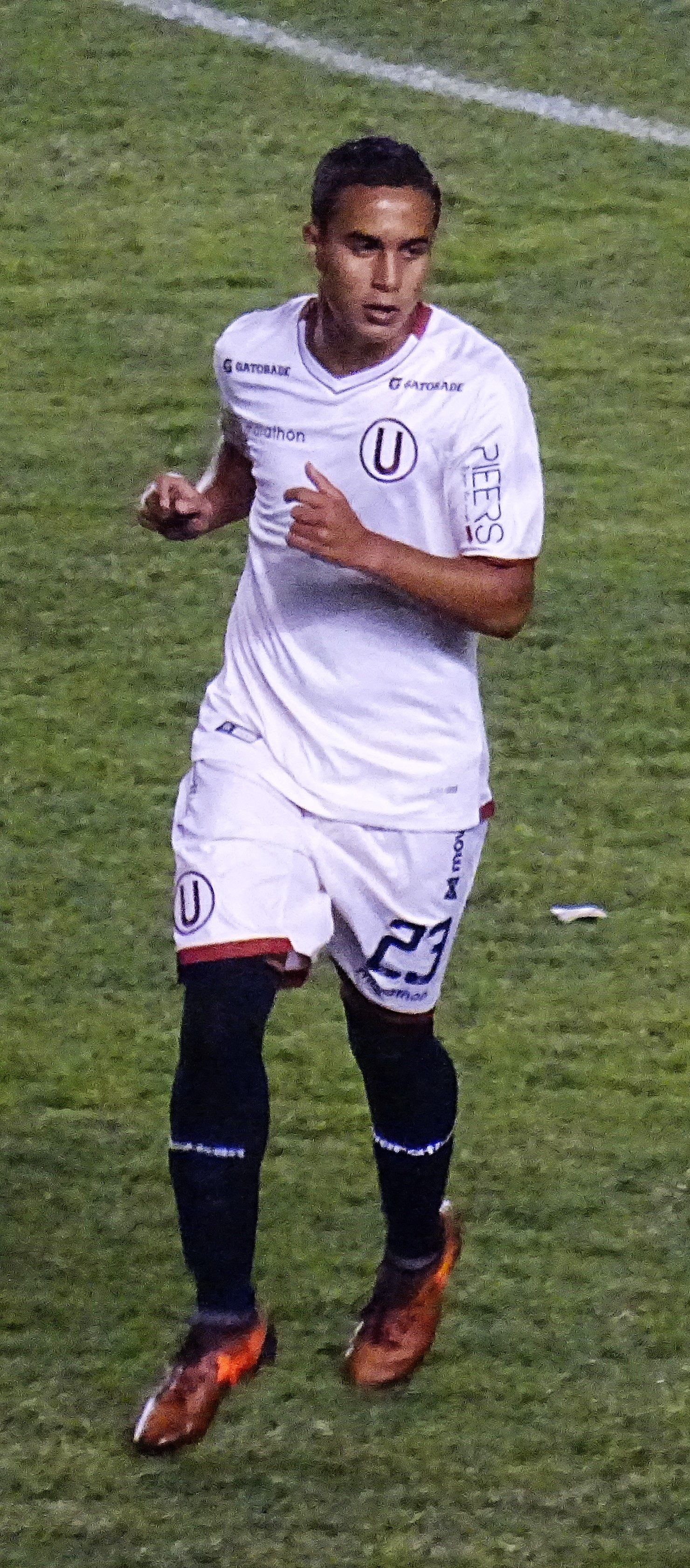 Jesús Barco (Lima, 1998) Peruvian footballer. Noche Crema 2018